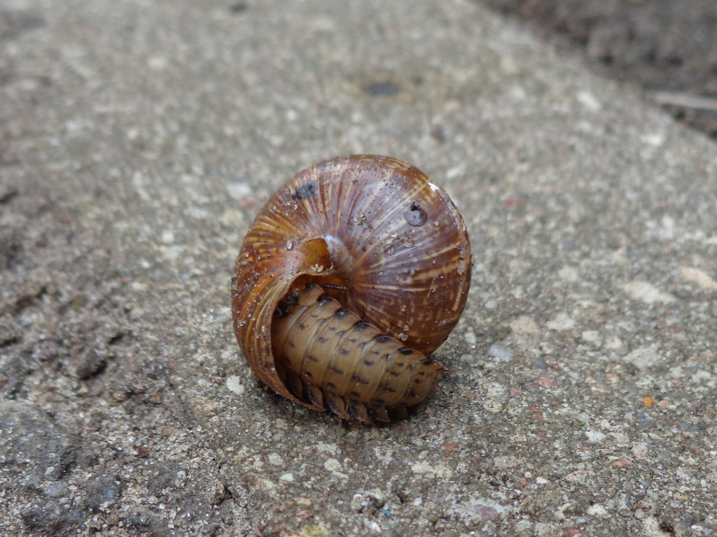 Silpha obscura. Found in Riga town, Latvia